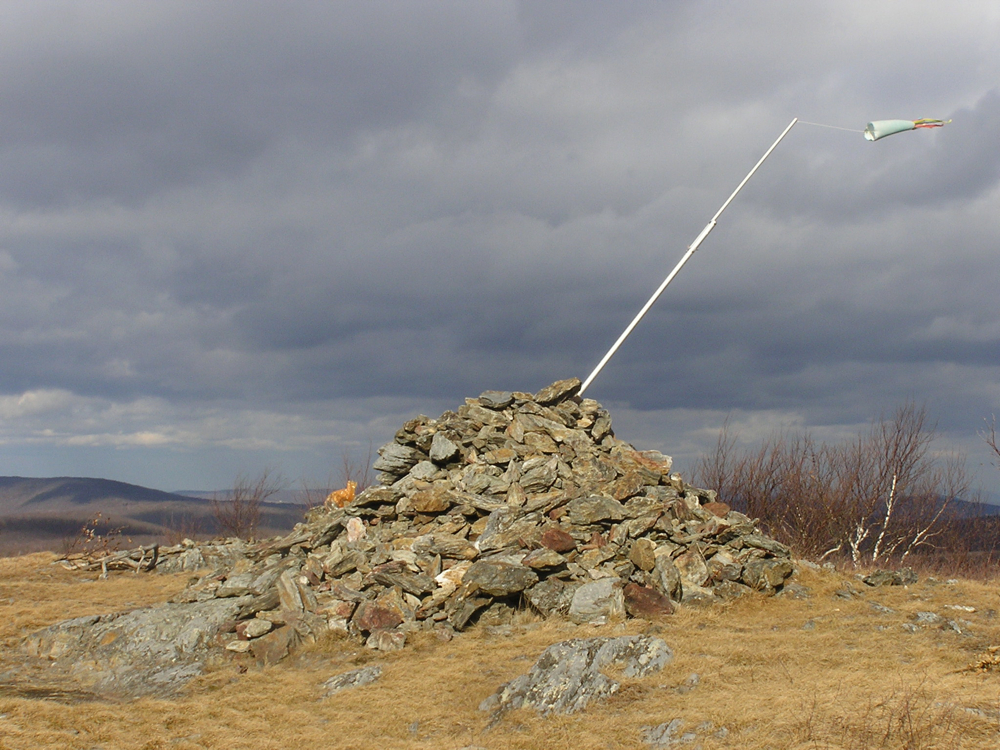 Brace Mountain summit cairn, November 2010